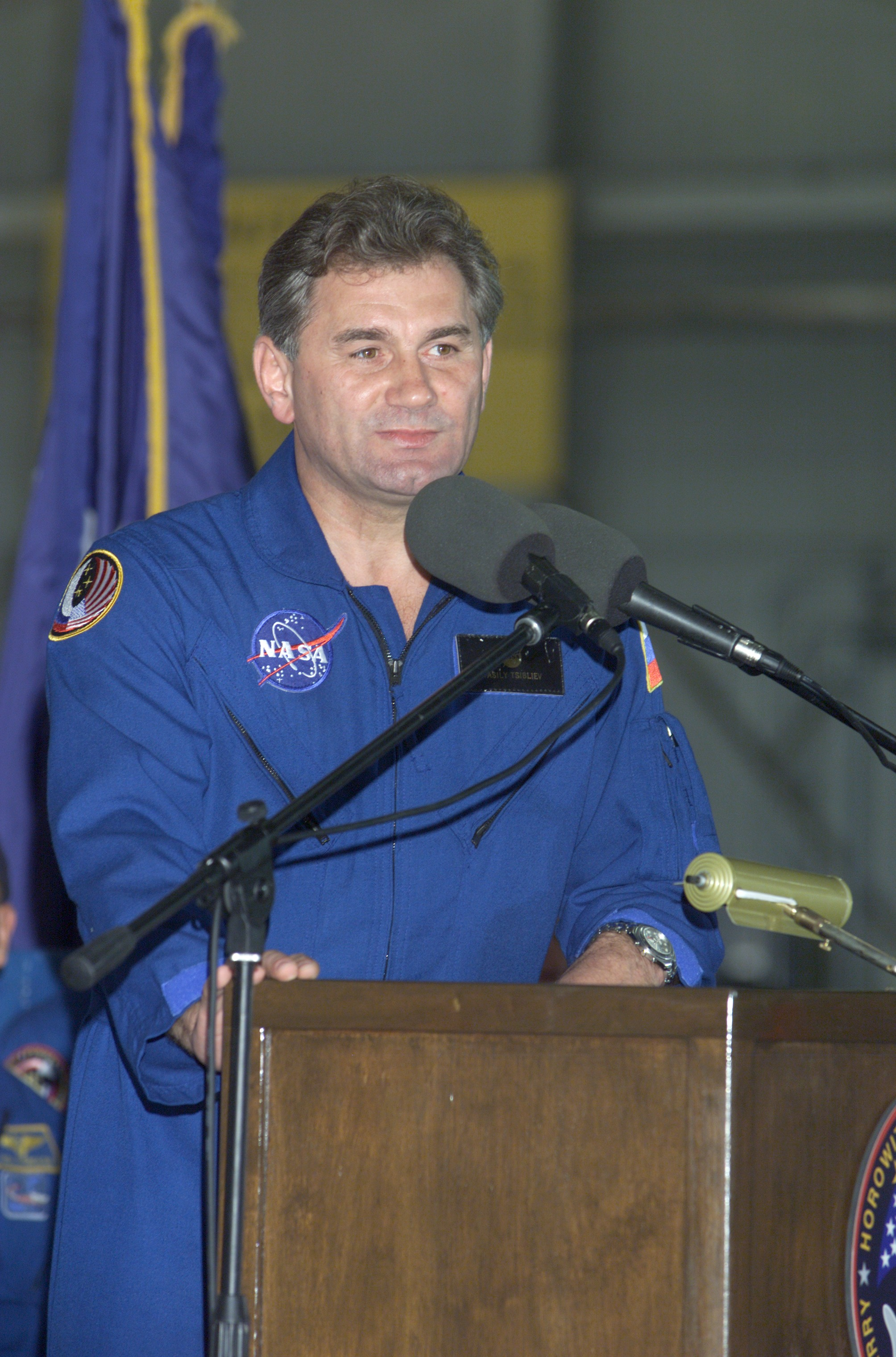 Photograph of cosmonaut Vasili V. Tsibliyev